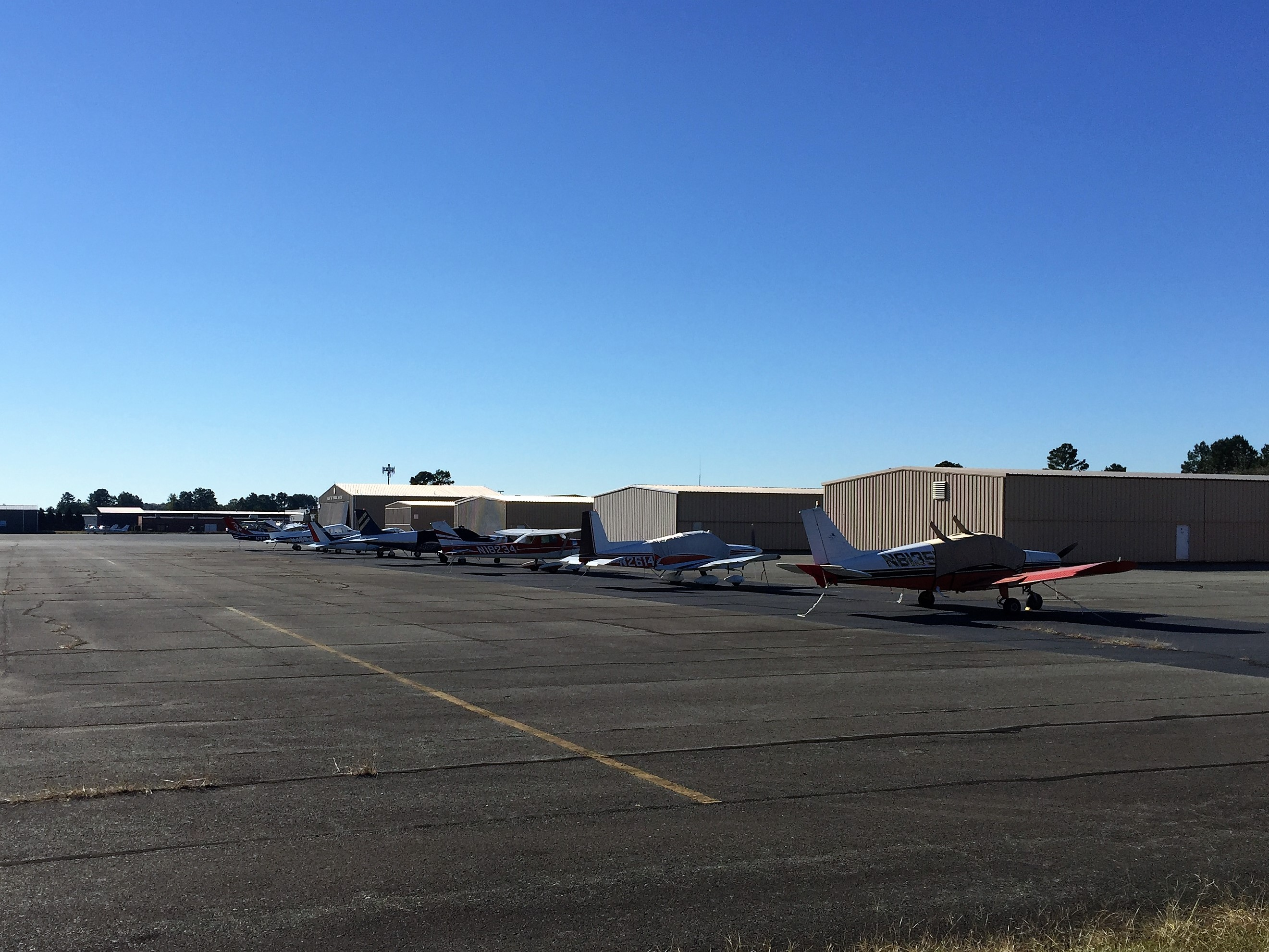 Planes, hangars and other buildings at the Hanover County Municipal Airport in Virginia, October 2018